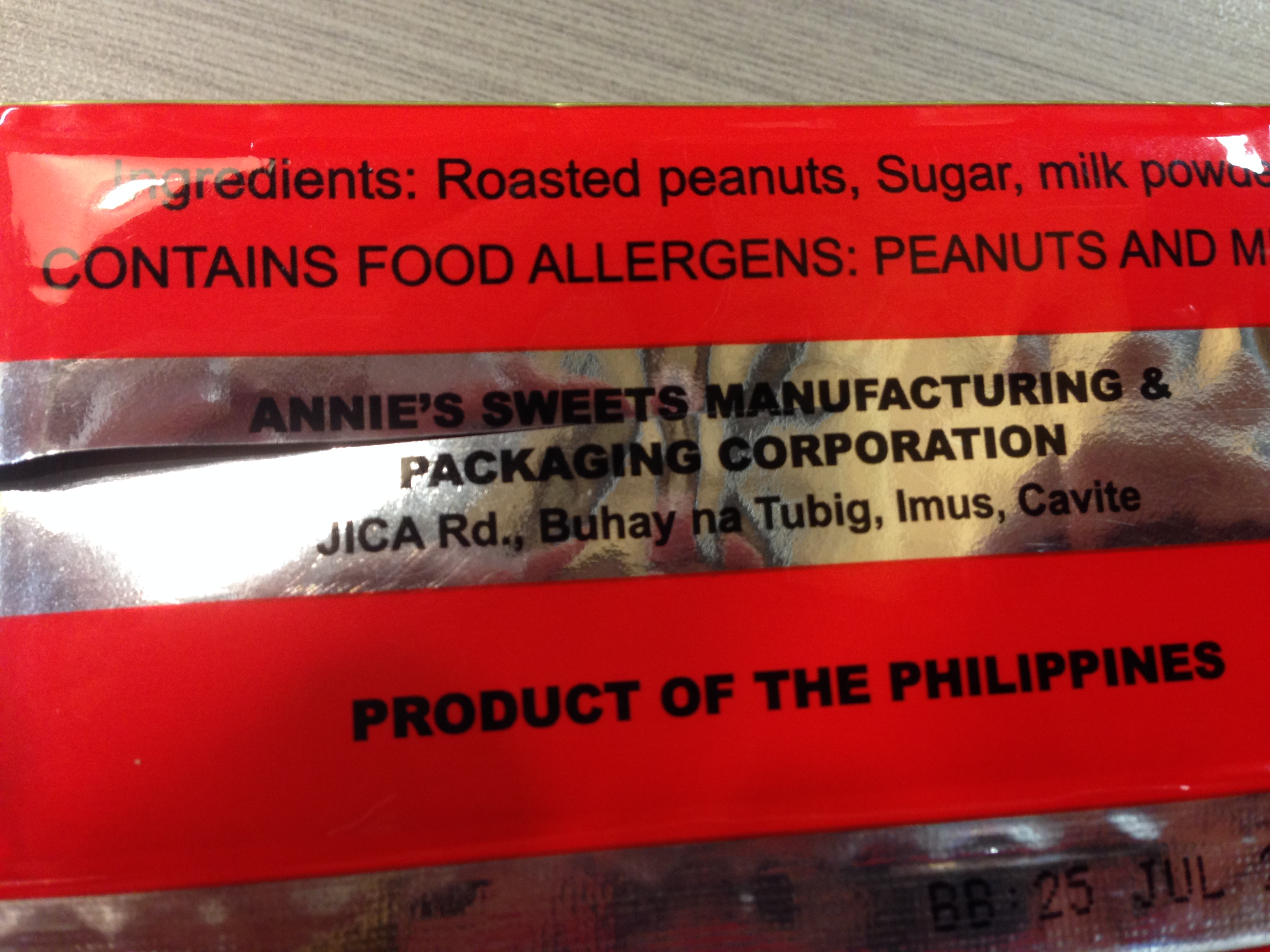 Information on the new manufacturer of King Choc Nut